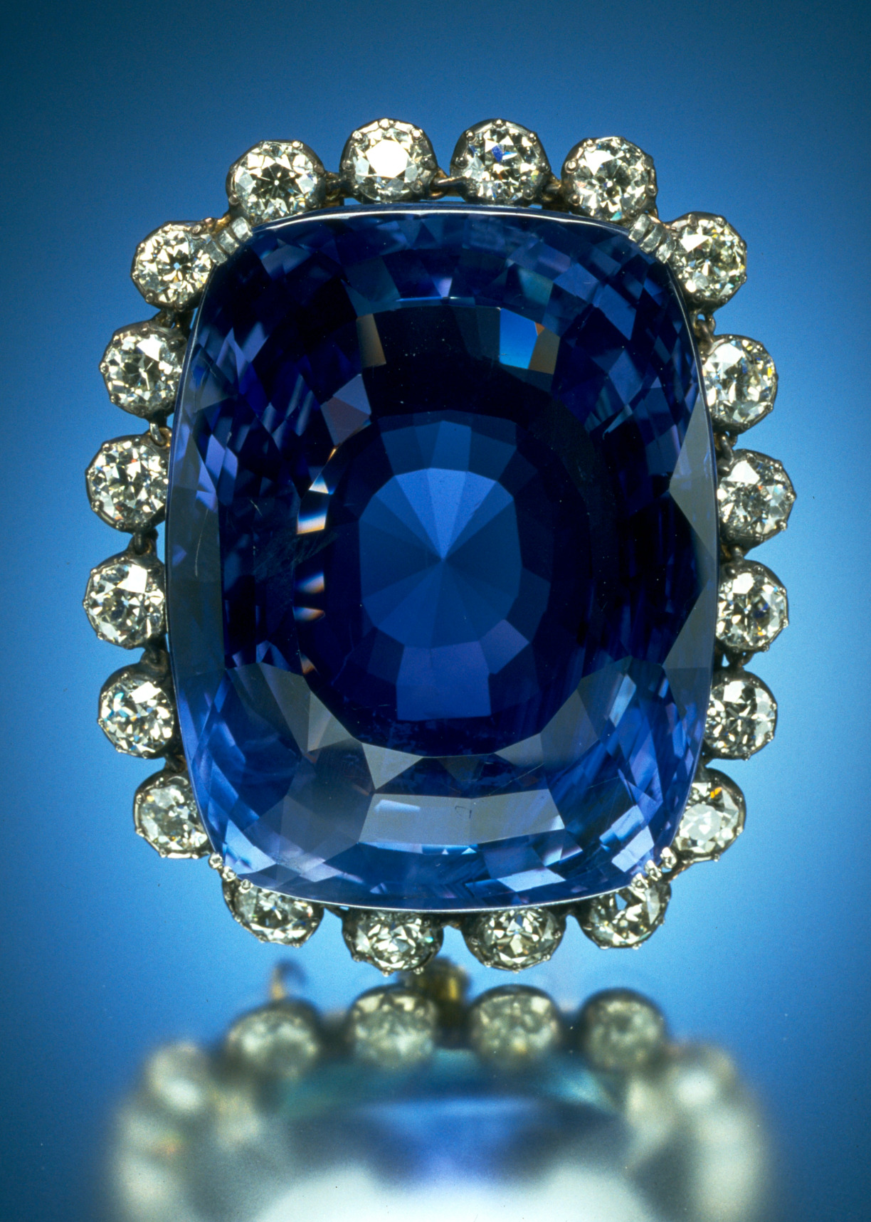 Logan sapphire with diamonds, National Museum of Natural History, Washington DC